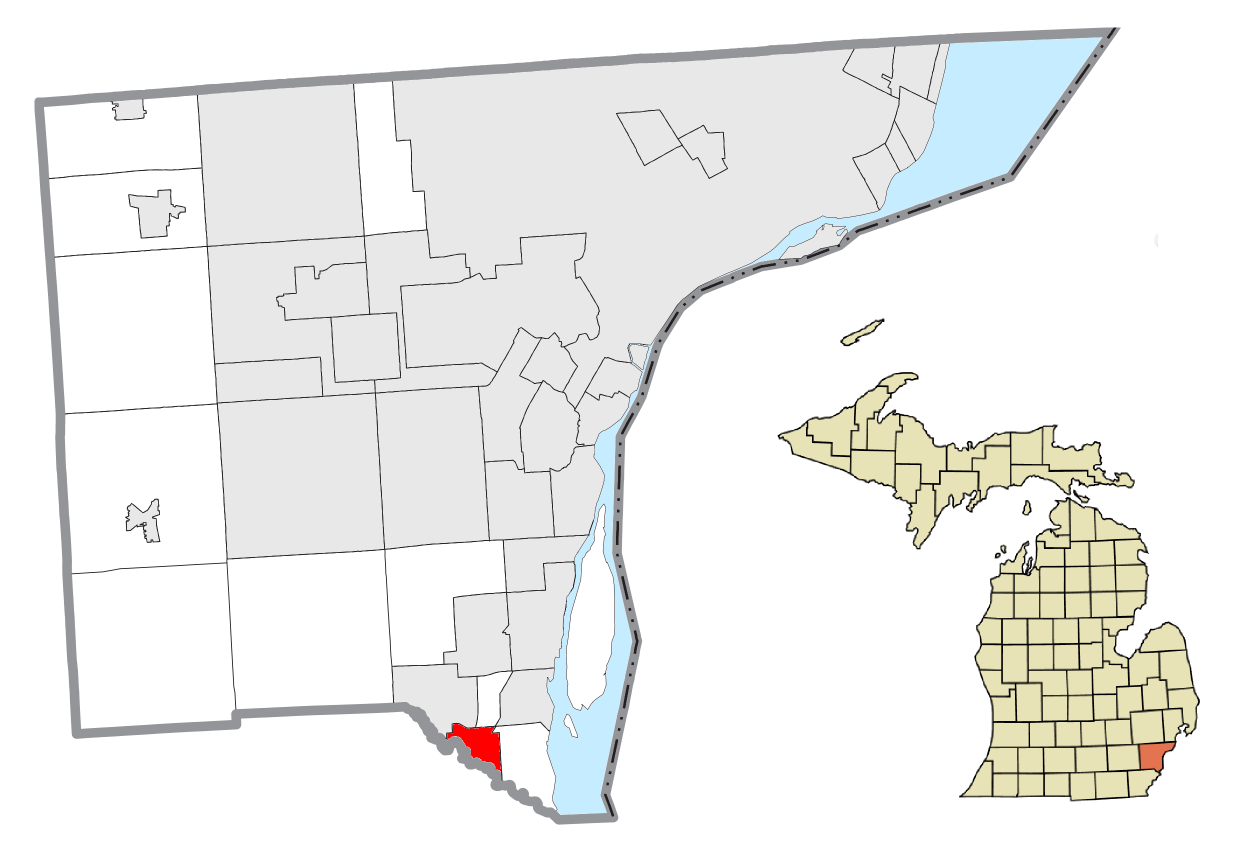 Rockwood, MI